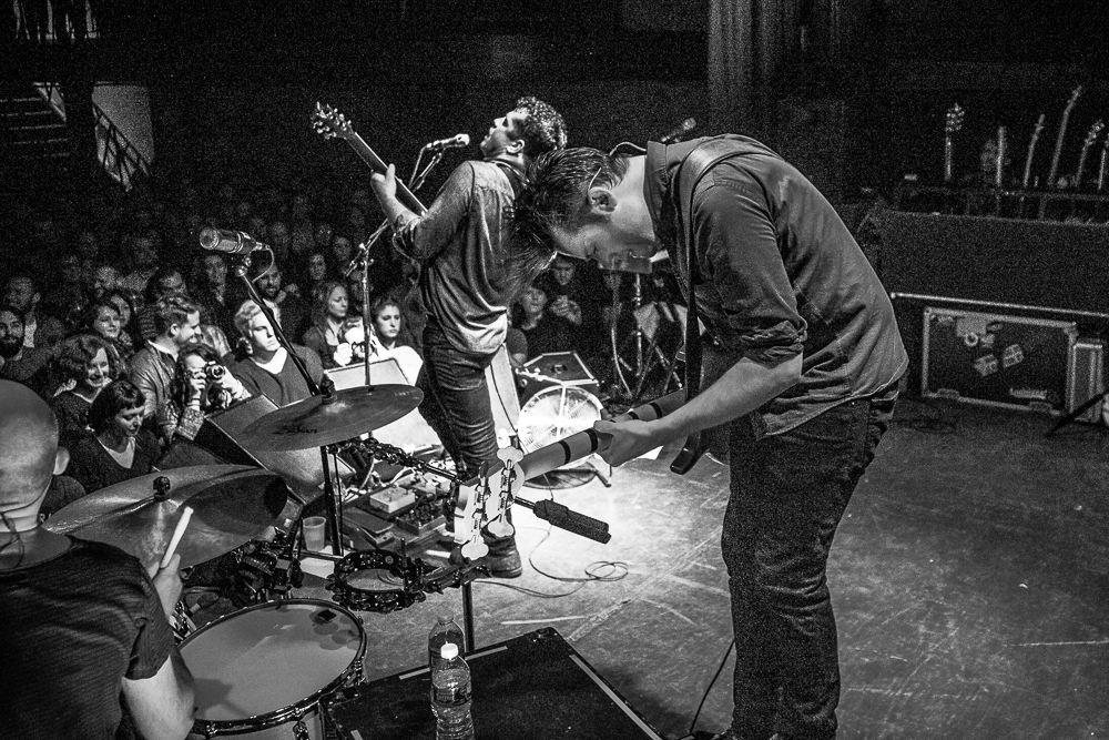 Augustines at the Bowery Ballroom in NYC 3/3/14